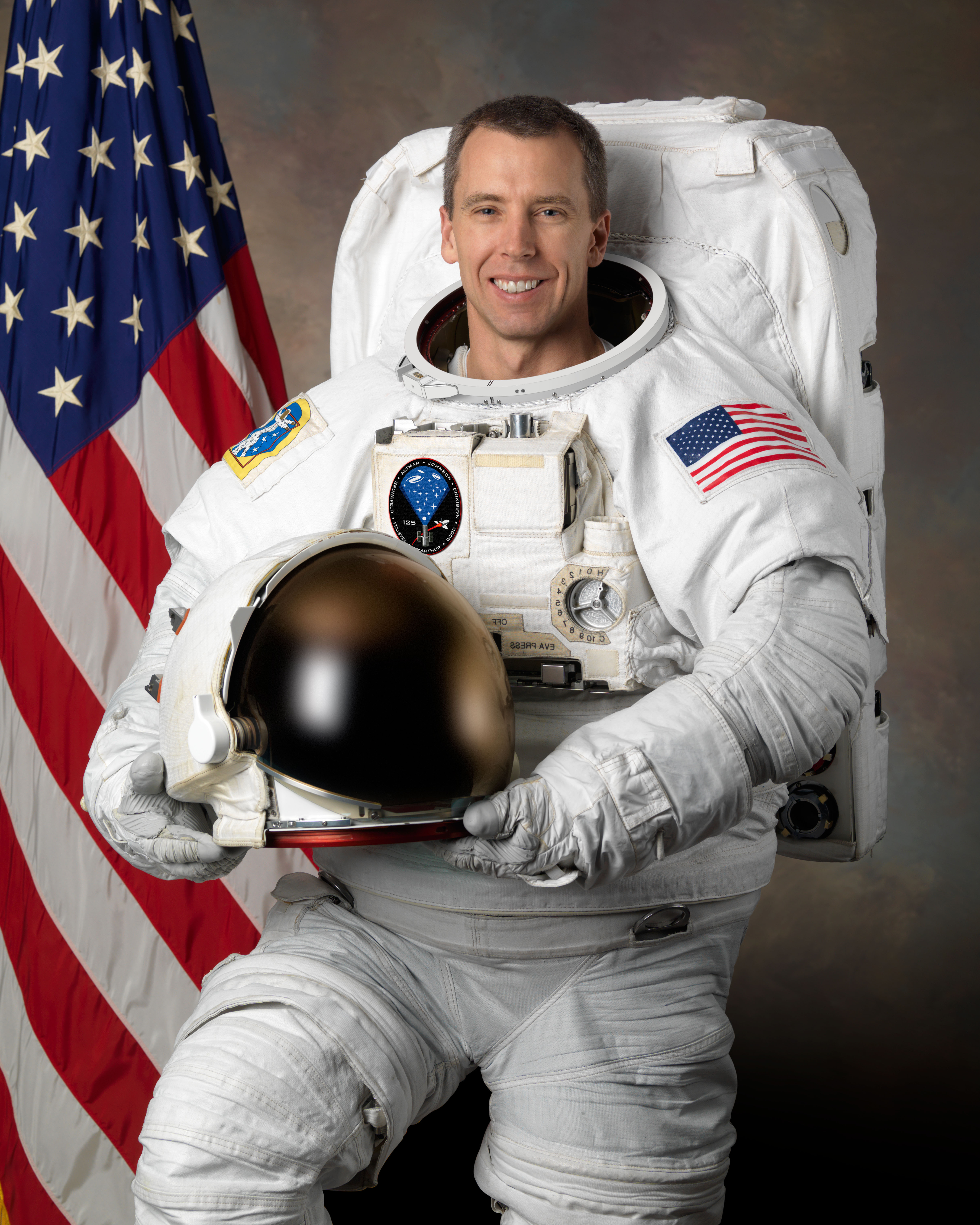 Official portrait image of NASA astronaut Andrew Feustel.